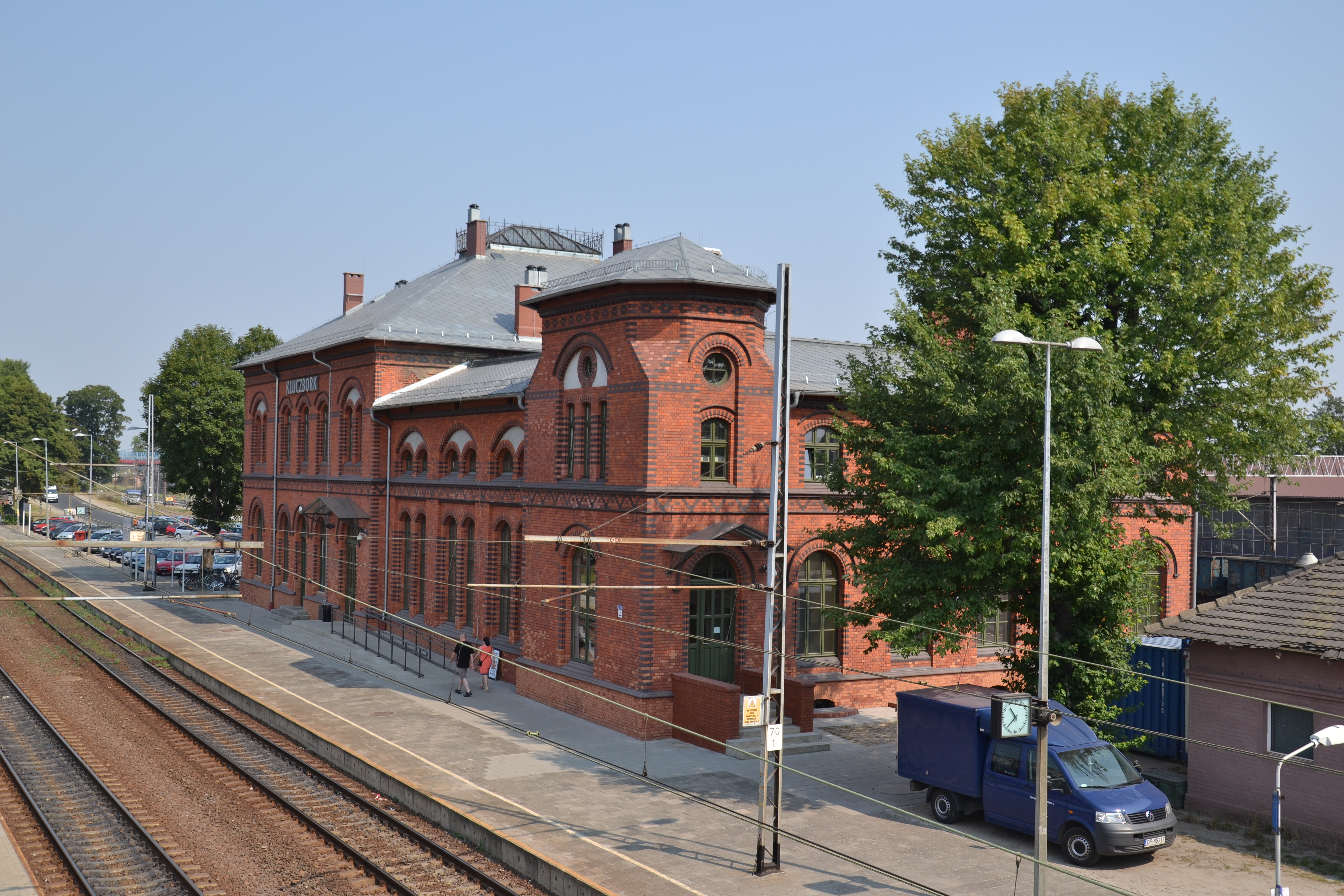 Widok dworca w Kluczborku This photo was taken during Railway Wikiexpedition 2015 set up by Wikimedia Polska Association in cooperation with Fundacja Grupy PKP. You can see all photographs in category Wikiekspedycja kolejowa 2015.